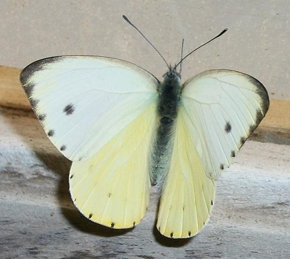 Dixeia pigea female, from Amanzimtoti, South Africa